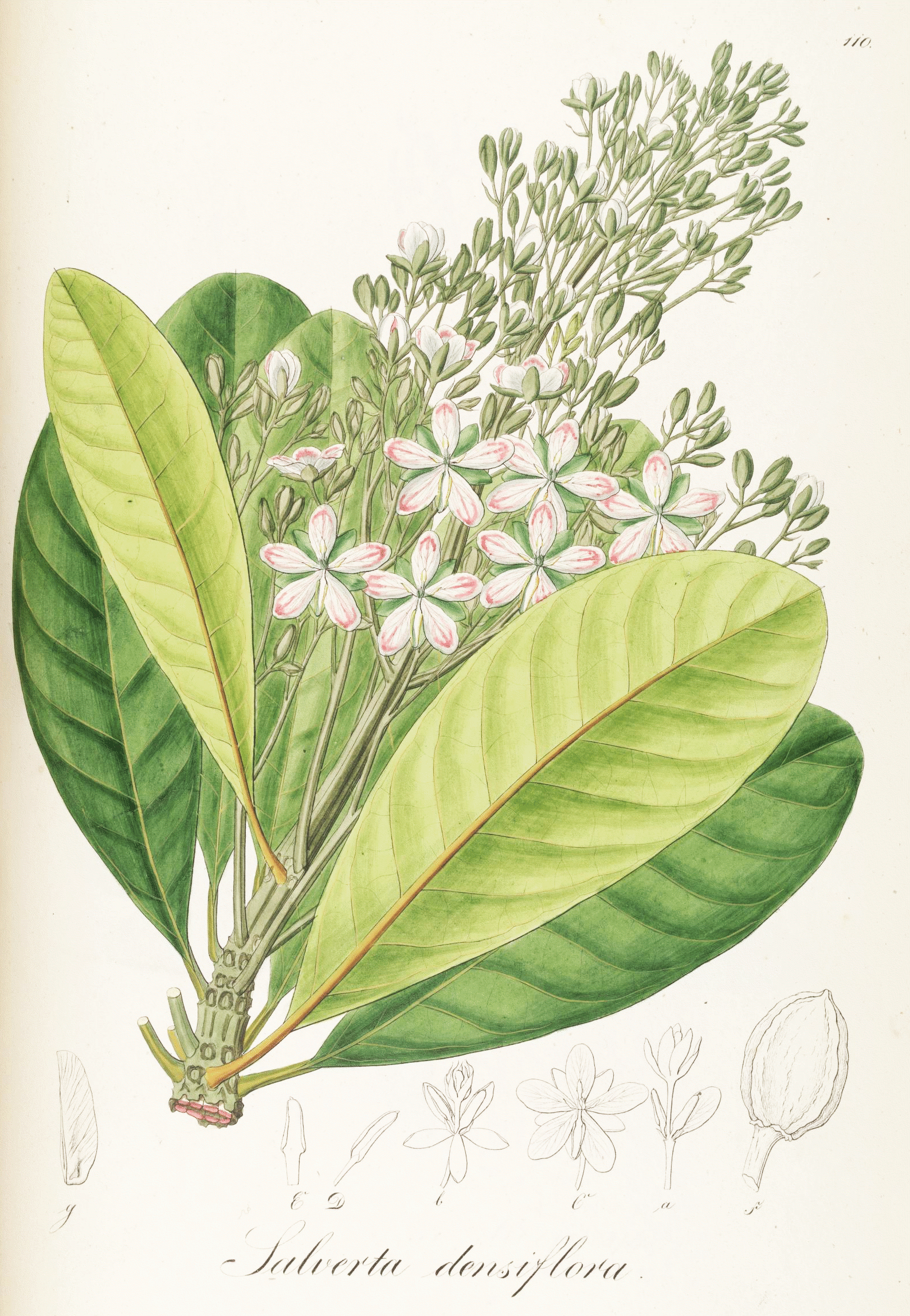 Plate 110 "Salverta densiflora", illustration to the original diagnosis of Salvertia thyrsiflora Pohl - see text part of the volume, p. 16